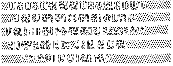 Barthel's tracing of rongorongo tablet N, side b